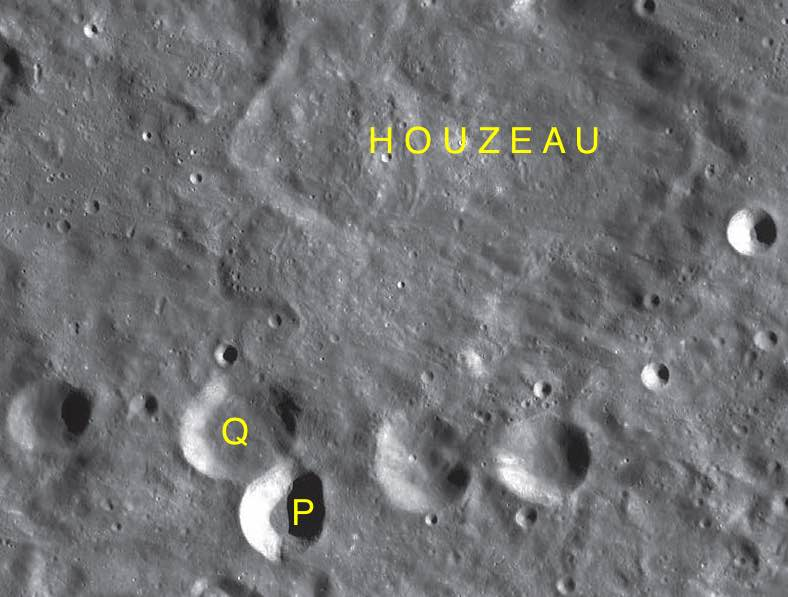 Part of the chart LAC-107 used for the presentation